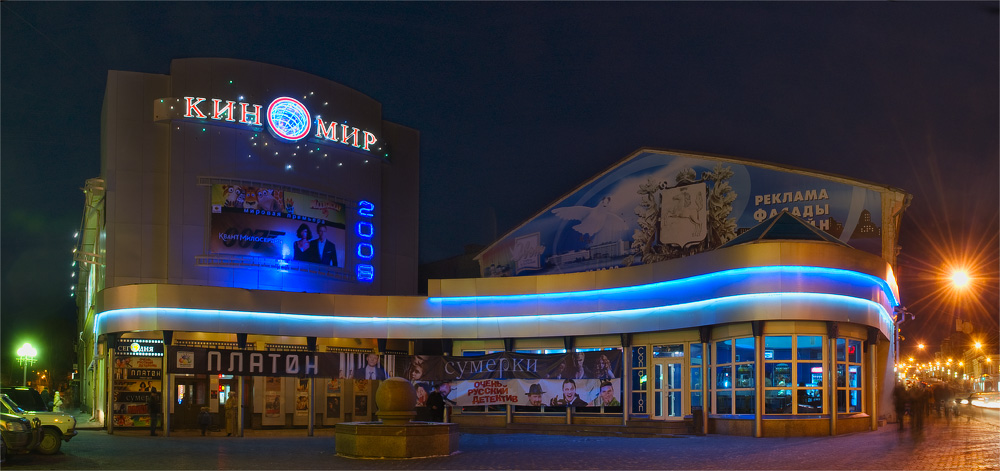 Kinomir cinema in Tomsk